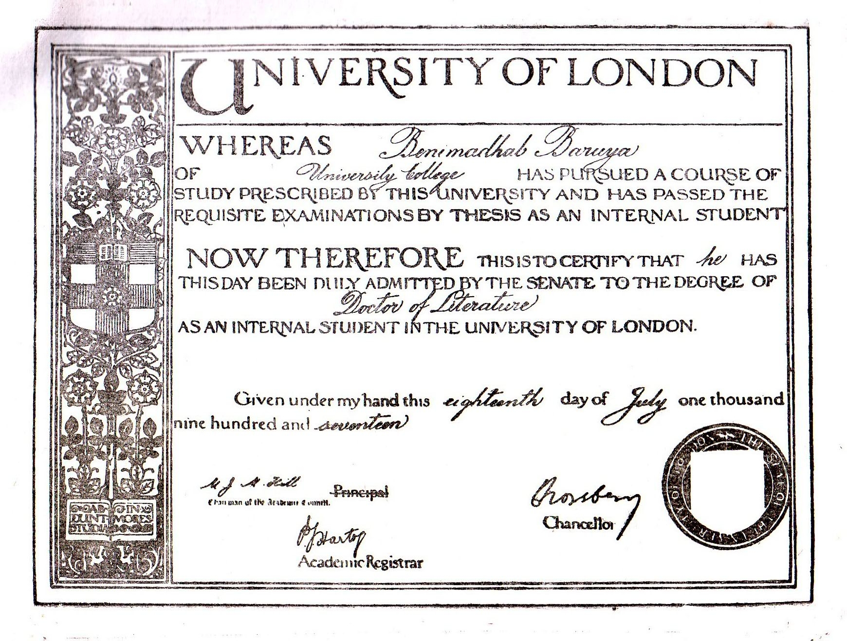 Certificate of D.Lit.